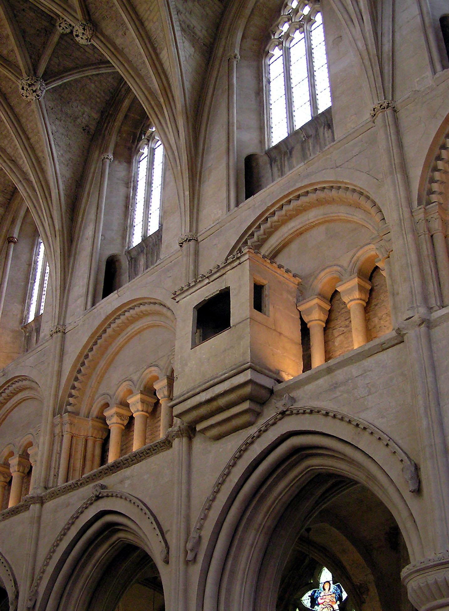 Malmesbury Abbey clerestory level (at the top of the picture with the clear glass windows). The next level down (with rounded flood-lit arches) is the triforium. The lowest level is the nave arcade. Taken by Adrian Pingstone in February 2005 and released to the public domain.